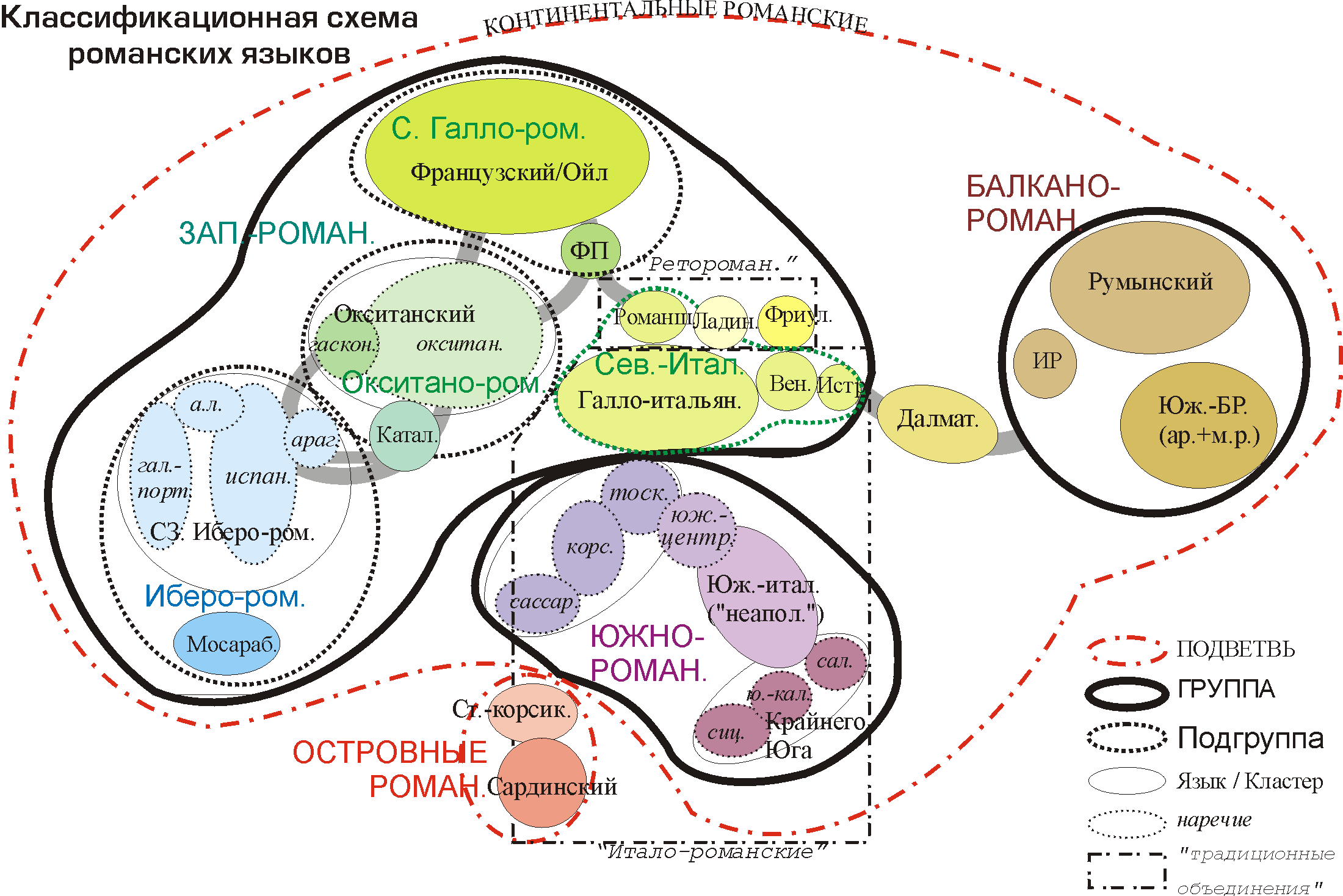 Chart of Romance languages based on structural and comparative criteria not on socio-functional ones. Based on the chart published in "Koryakov Y.B. Atlas of Romance languages. Moscow, 2001".